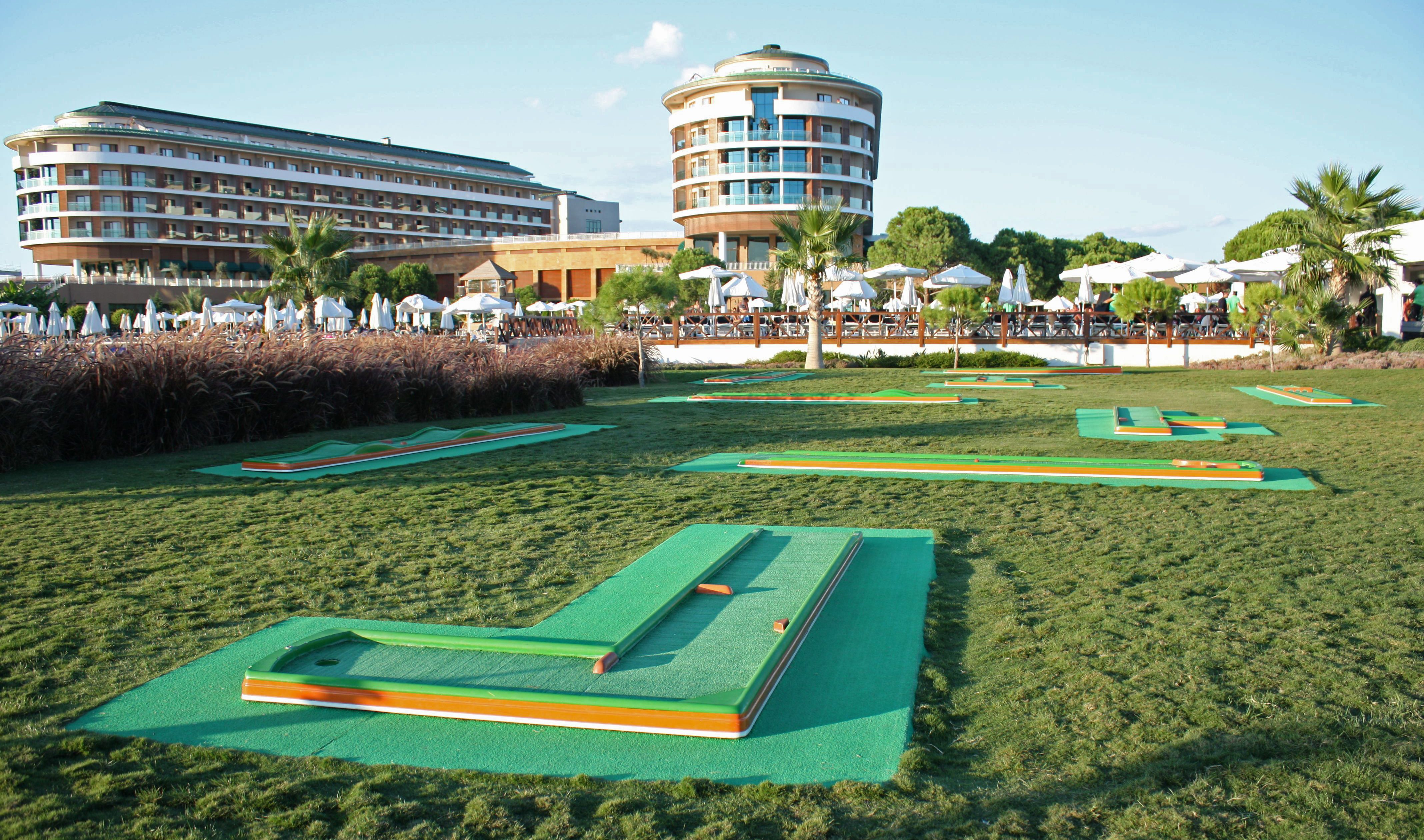 Miniature golf. Hotel Voyage-Belek, Turkey